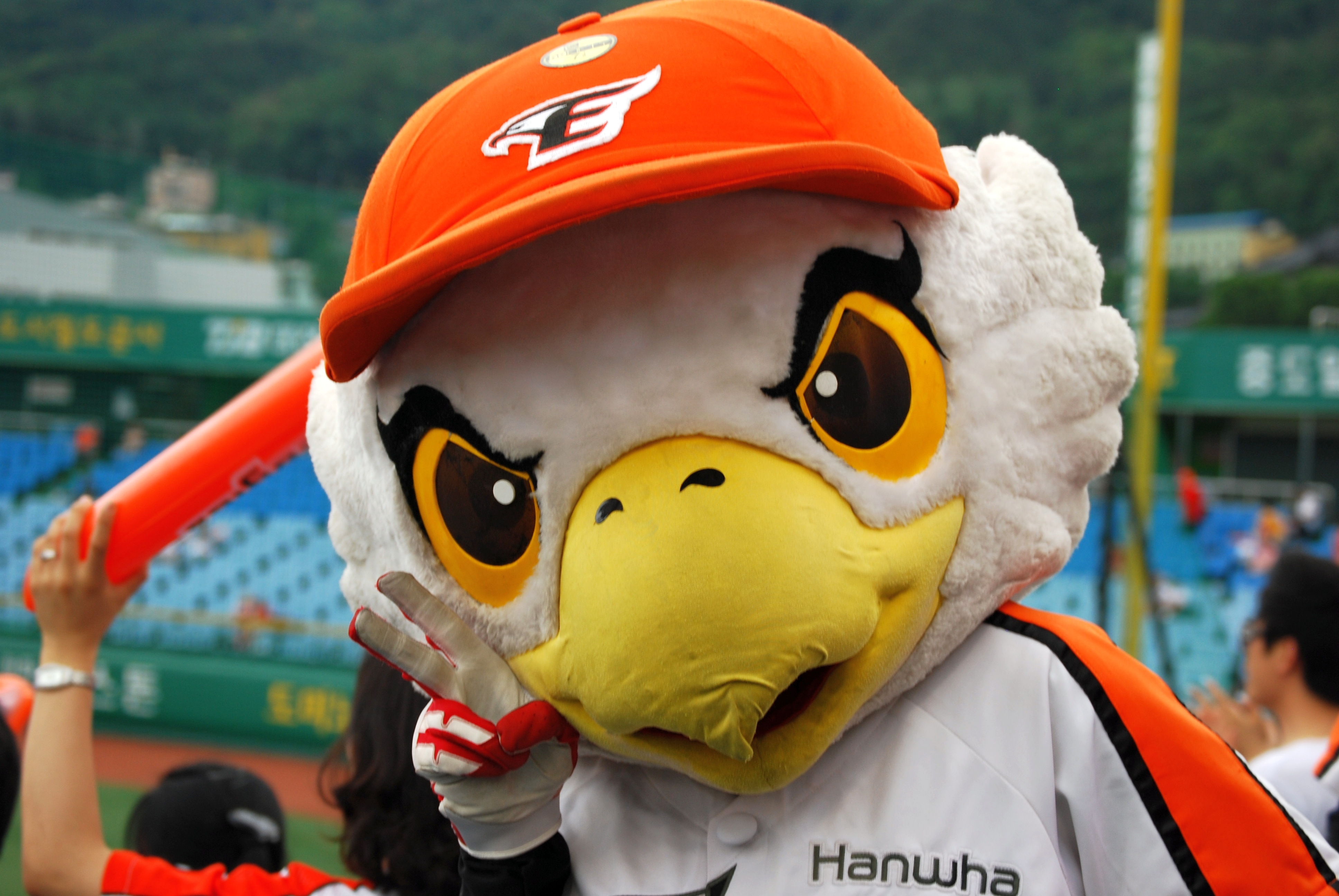 DAEJEON – About 100 members of the Humphreys Garrison traveled here to watch the Korean Professional Baseball League’s Hanwha Eagles play against the LG Twins at Daejeon Baseball Stadium, June 26. For many attendees, the game gave them a unique cultural experience and an entertaining afternoon. Prior to the game, the Humphreys community was invited by the Eagles to come onto the field. They played catch, threw a Frisbee around, and took pictures with the Eagles mascots and some players. U.S. Army photos by Jessica Ryan For more information on U.S. Army Garrison Humphreys and living and working in Korea visit: USAG-Humphreys' official web site or check out our online videos.